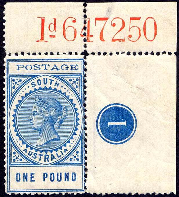 Victorian £1 stamp of South Australia.